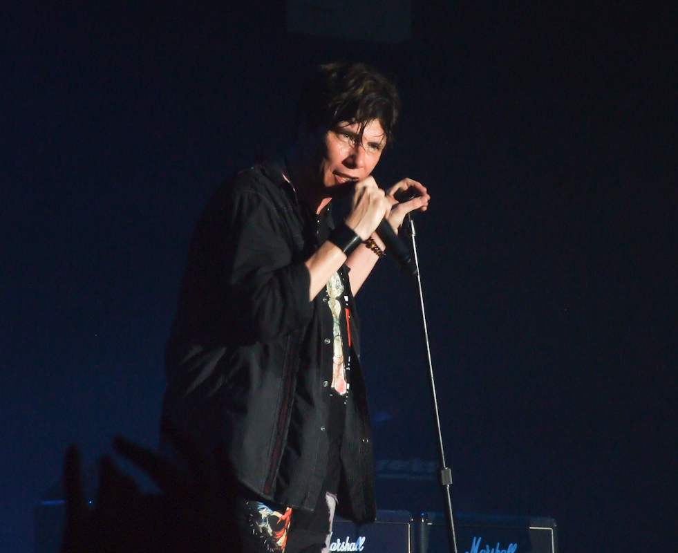 Eric Martin - vocalist of the hard rock band Mr. Big. The photo was taken during the Mr.Big concert at Festivalna Hall, Sofia, Bulgaria.